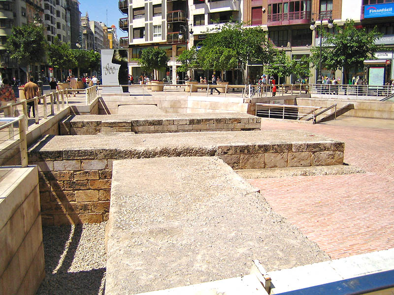 remains of the 14th century city wall of Valencia, Spain, in carrer de Colom (Colombus street)